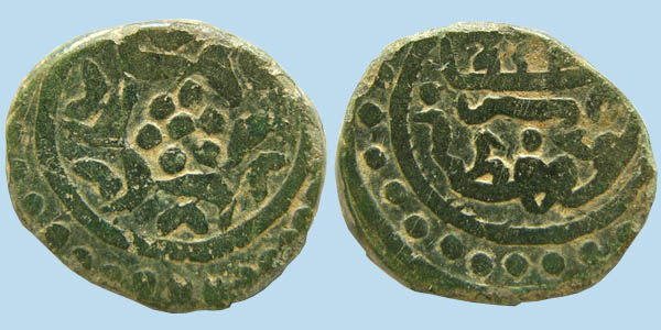 Copper coin (mangir) dated 1564 (AH 942) from the period of the Ottoman Sultan Suleiman I (1494-1566) Front of the coin has a geometric motif. The back says "... KOSTANTİNİYE SENE 942".